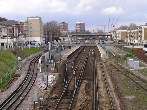 Adam J Sporka